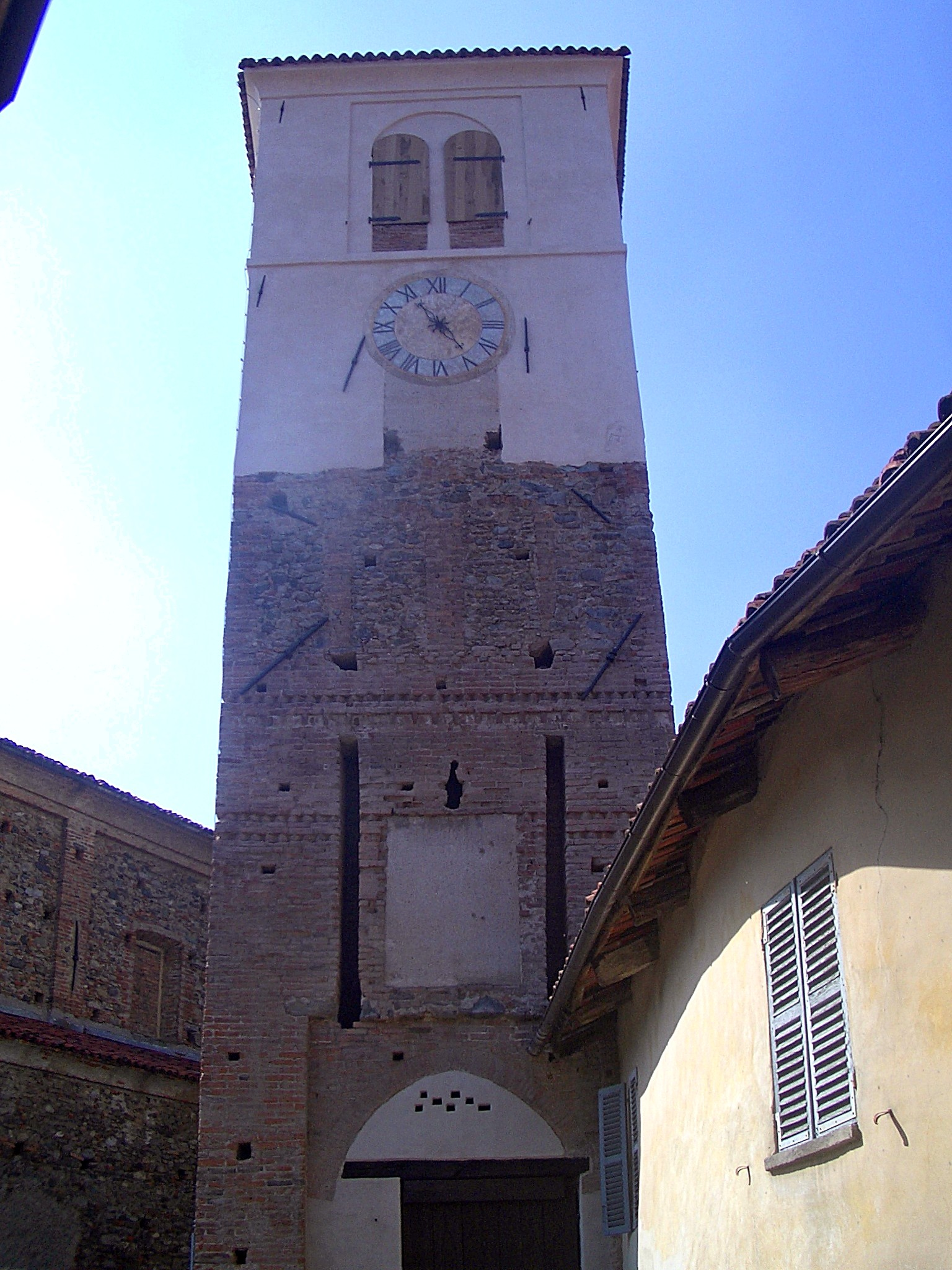 San Martino Canavese, the door tower (now clock tower), XI century